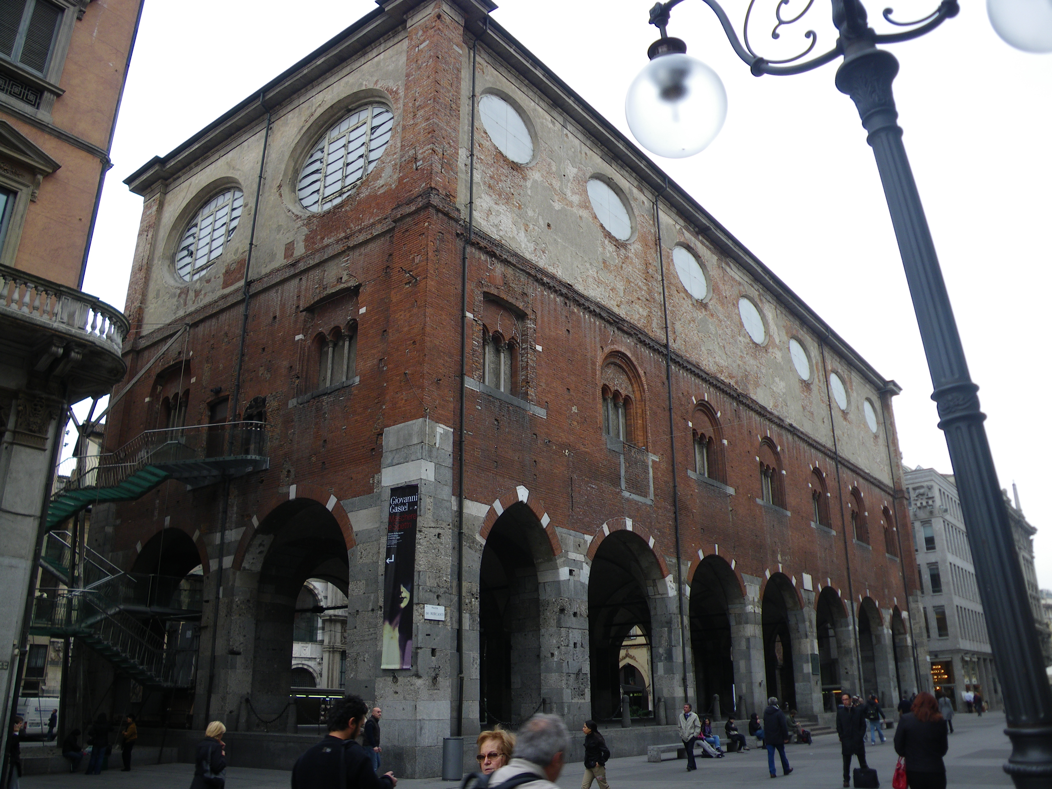 Milan, Italy